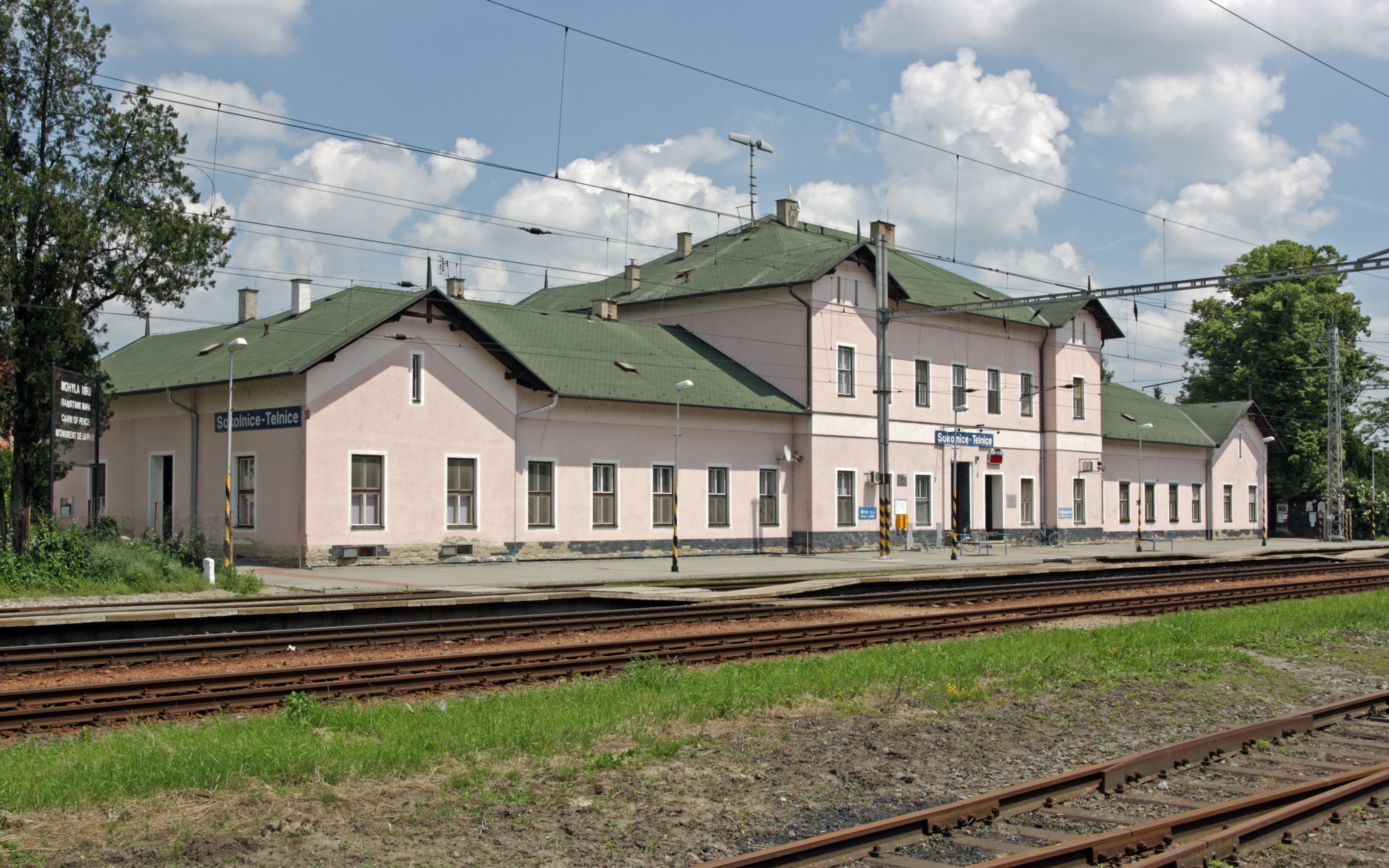 Sokolnice and Telnice in Brno-Country District, Czech republic. Station Sokolnice-Telnice on the line Brno-Přerov.